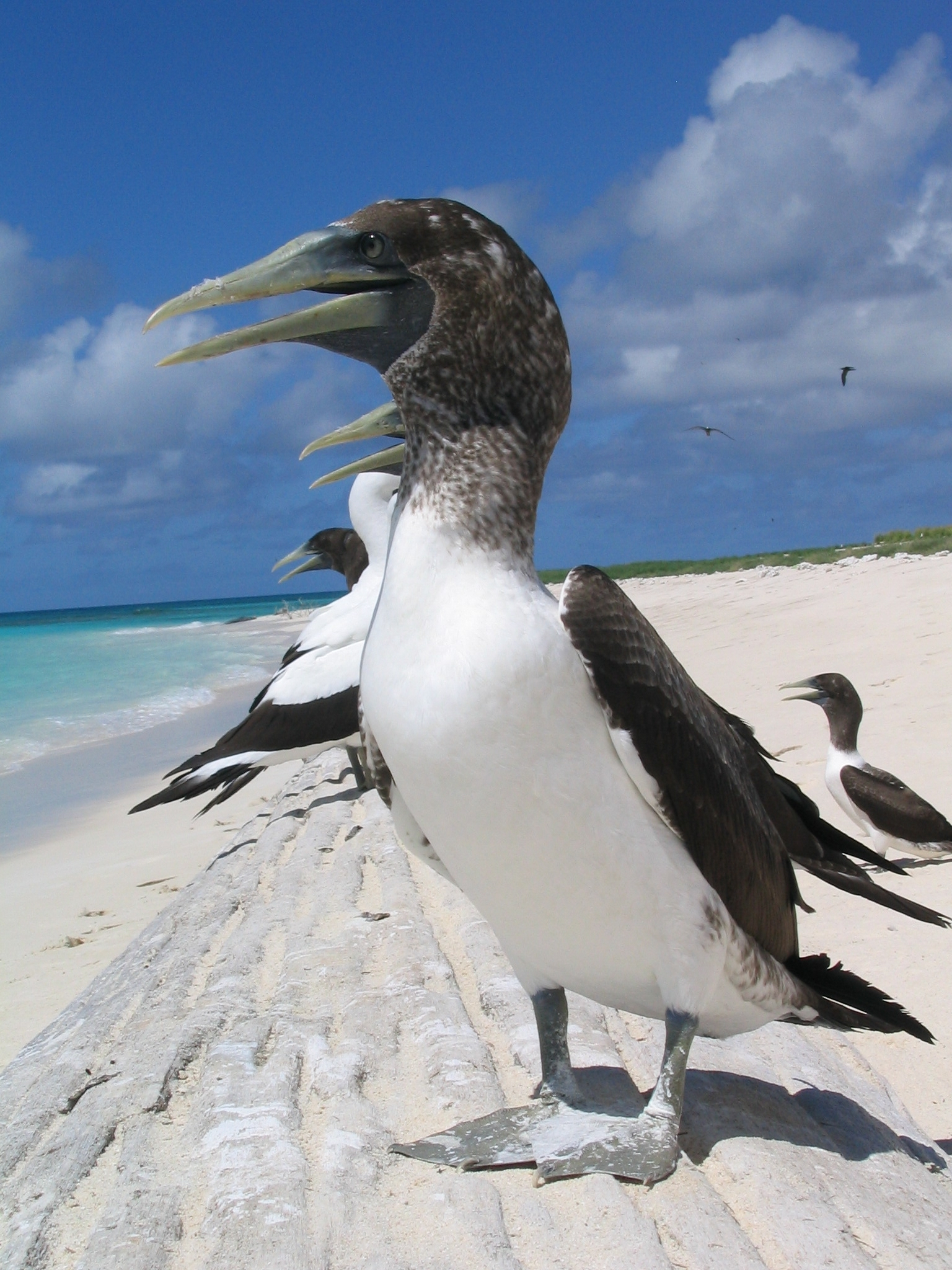 immature Masked Booby. Hawaii, Northwest islands, Lisianski Island.